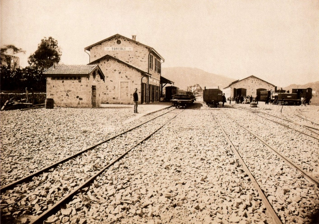 The railway station of Tortolì in the last years of the 19th century